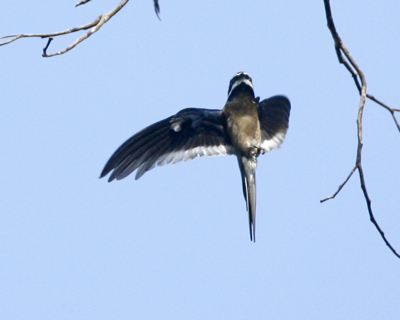 Whiskered Treeswift - female in flight Hemiprocne comata comata Panti Forest, Johor, Malaysia 11th. March 2007